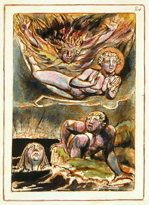 Plate 24 of The Book of Urizen by William Blake, printed 1818. Relief etching with monoprinted color. Collection The Library of Congress.